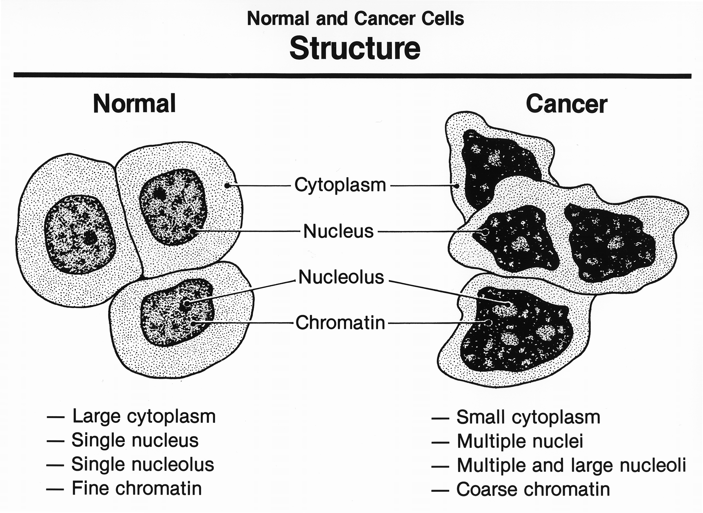 Title Normal And Cancer Cells Structure Description Normal cells on one side and cancer cells on another showing the characteristic structures of each. Topics/Categories Cells or Tissue, Abnormal Cells or Tissue Cells or Tissue, Normal Cells or Tissue Historical, Graphics Type B&W, Medical Illustration Source National Cancer Institute